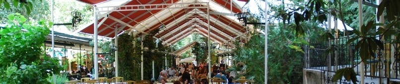 The best lebanese food restaurant-Casino Arabi